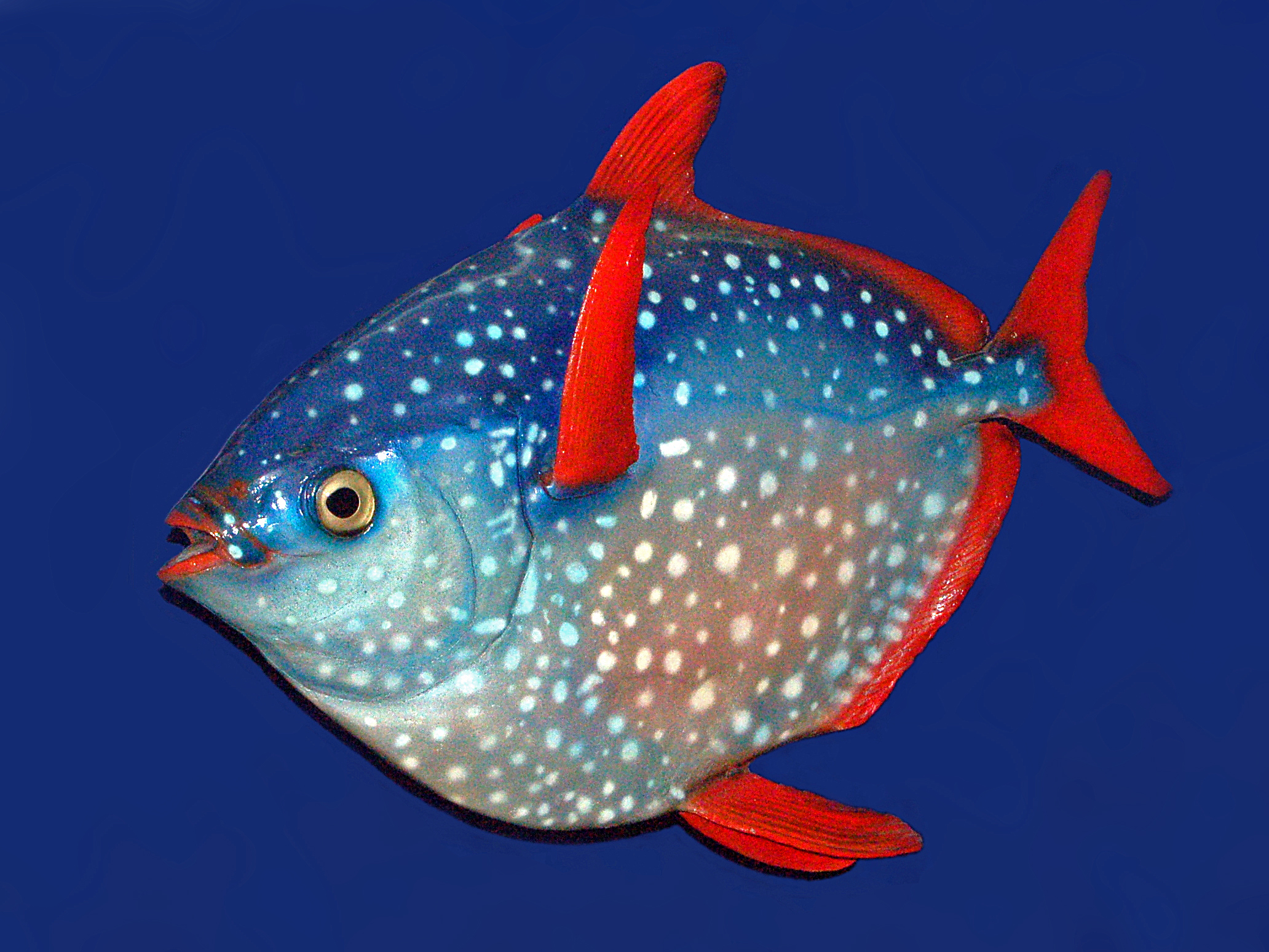 Lampris guttatus. Mounted specimen at the Museu Nacional de História Natural de Lisboa